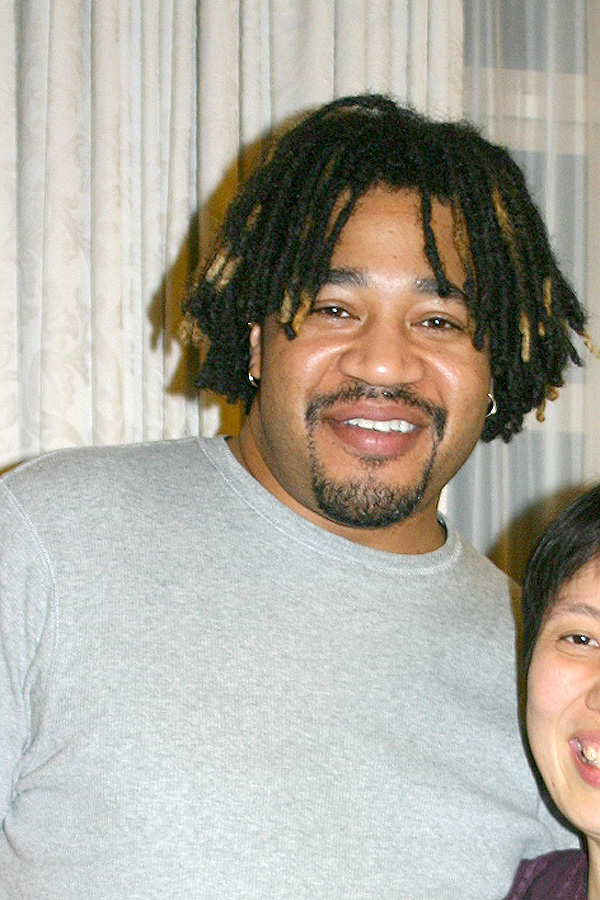 James Genus in Singapore, 2004